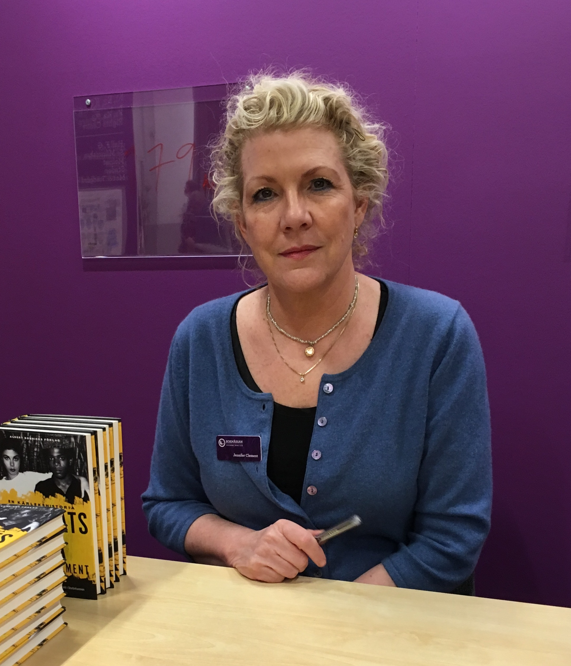 Jennifer Clement signing her book, Widow Basquiat, at the Gothenburg book fair in 2016.